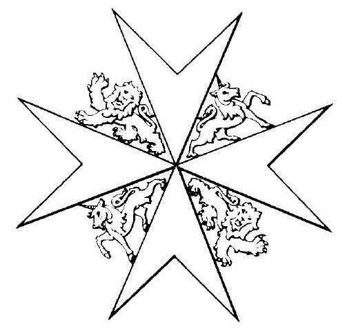 The cross of the Most Venerable Order of the Hospital of St John of Jerusalem. The standard cross of Malta has been ammended with the addition of lions passant guardant and unicorns passant (the supporters of the British Royal arms) in the main angles. This image was drawn by me using the Order's regulations (as posted on their website) as a model.